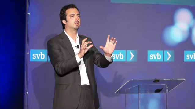 Jon Fisher Keynote at SVB CEO Summit